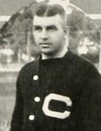 E. T. McDonald pictured in The Howler 1918, Wake Forest University yearbook